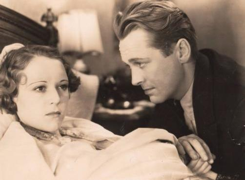 Press photograph of Sally Eilers and James Dunn in "Bad Girl" (1931)